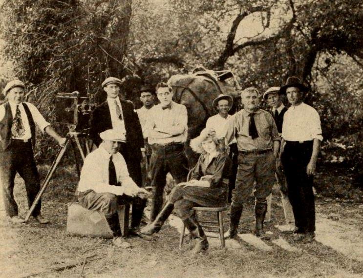 Still of the production crew for the American serial film The Lost City (1920) with Juanita Hansen surrounded by film director E.A. Martin and actors George Chesebro, Frank Clark, and Hector Dion, on page 52 of the December 20, 1919 Exhibitors Herald.